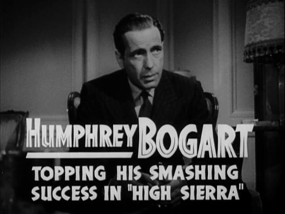 Frame from the 1941 public domain trailer for the Warner Bros. film The Maltese Falcon showing Humphrey Bogart with his name in type.